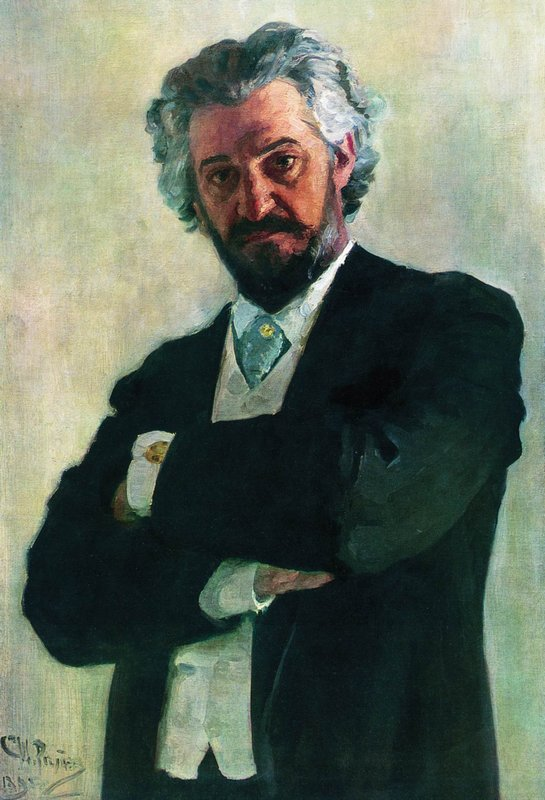 Portrait of the cellist Aleksander Valerianovich Wierzbiłłowicz